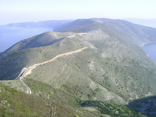 Island of Cres, Croatia